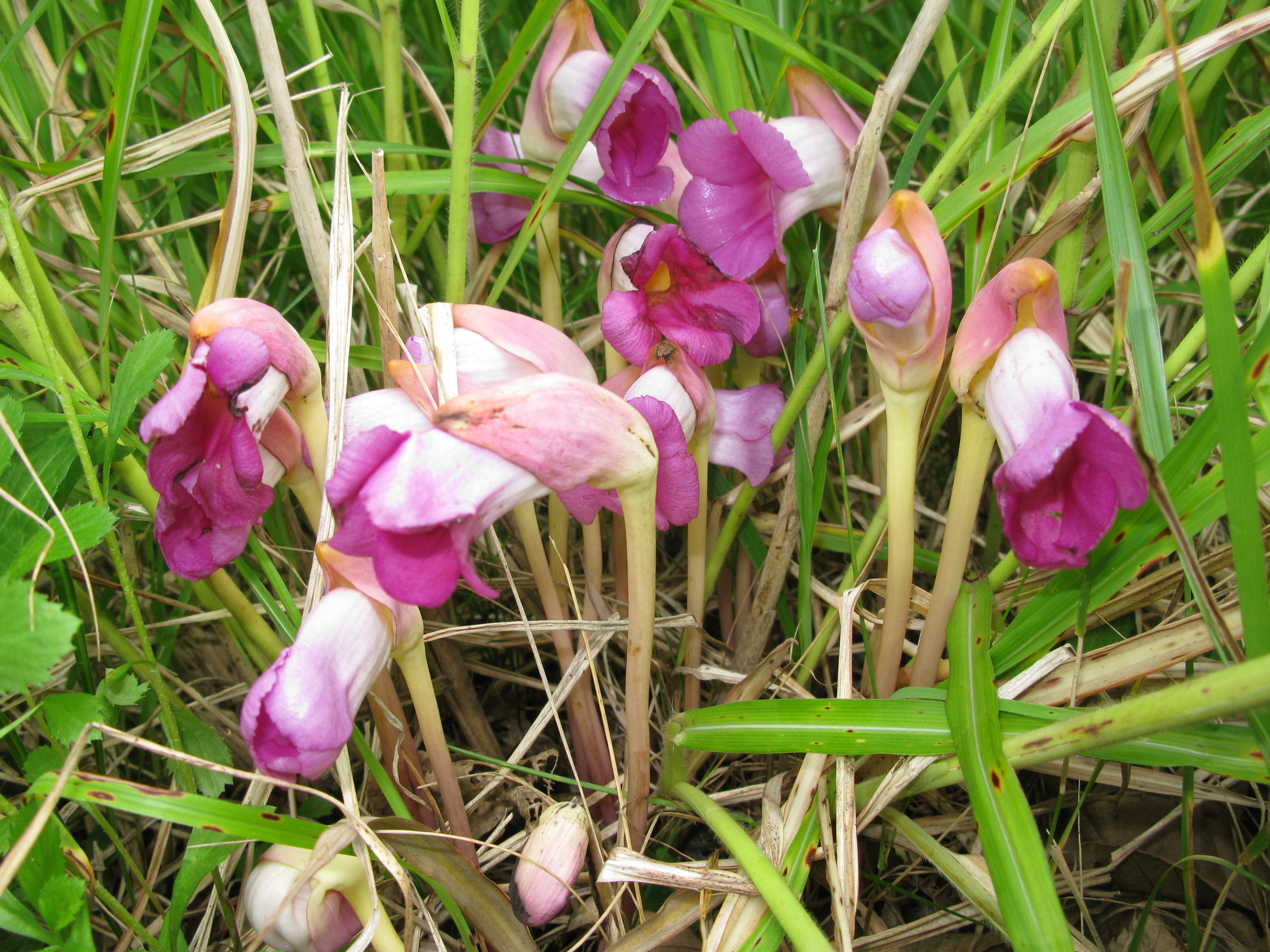 Aeginetia sinensis, Aizu area, Fukushima pref., Japan